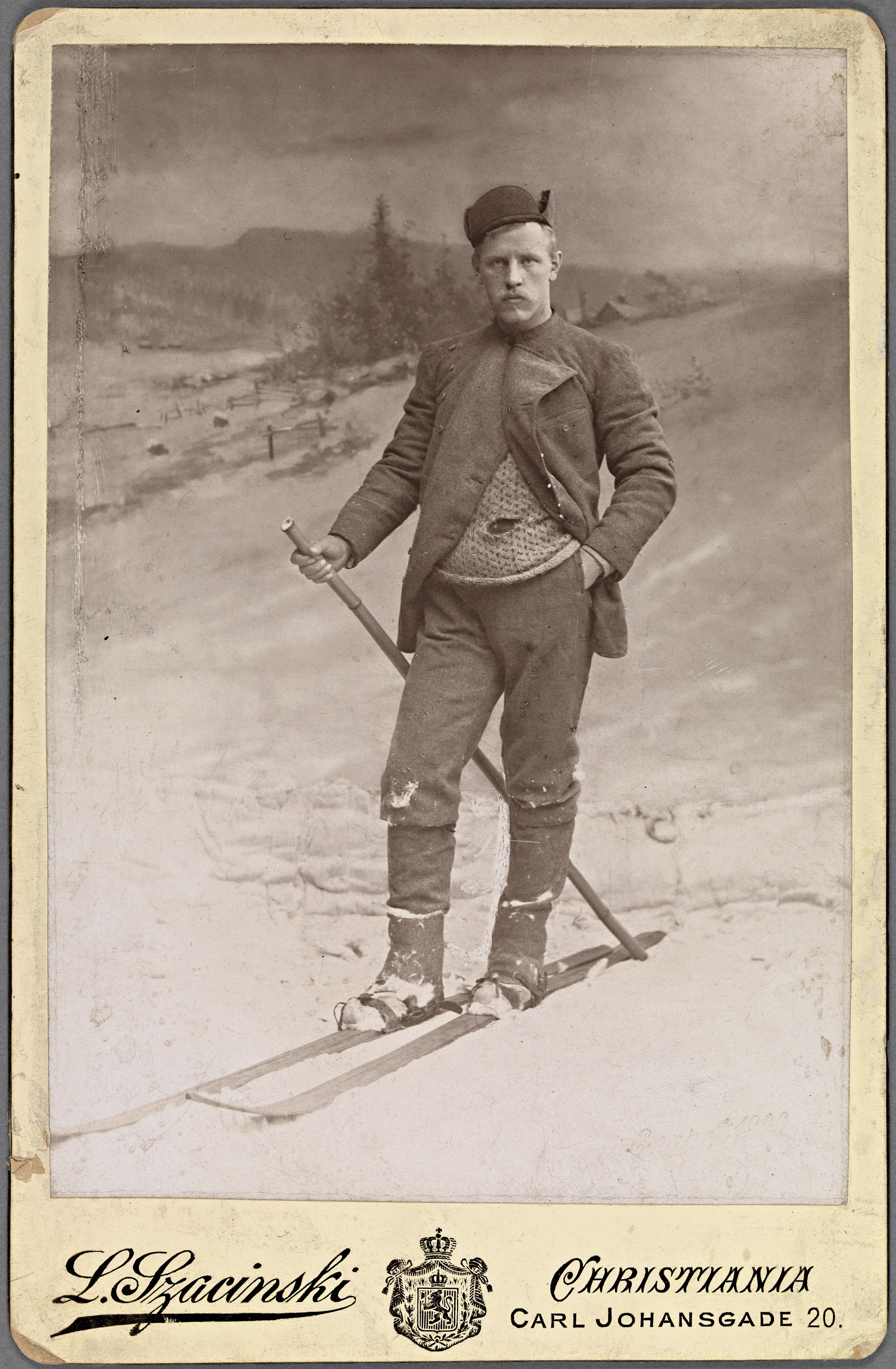 Beskrivelse / Description: Kabinettkort / Cabinet card. Bildet er tatt i Szacinskis atelier. Dato / Date: 1890 Sted / Place: Oslo Fotograf / Photographer: L. Szacinski Digital kopi av original / Digital copy of original: s/h papirpositiv, kabinettkort Eier / Owner Institution: Nasjonalbiblioteket / National Library of Norway Lenke / Link: Bildesignatur / Image Number: bldsa_7a005